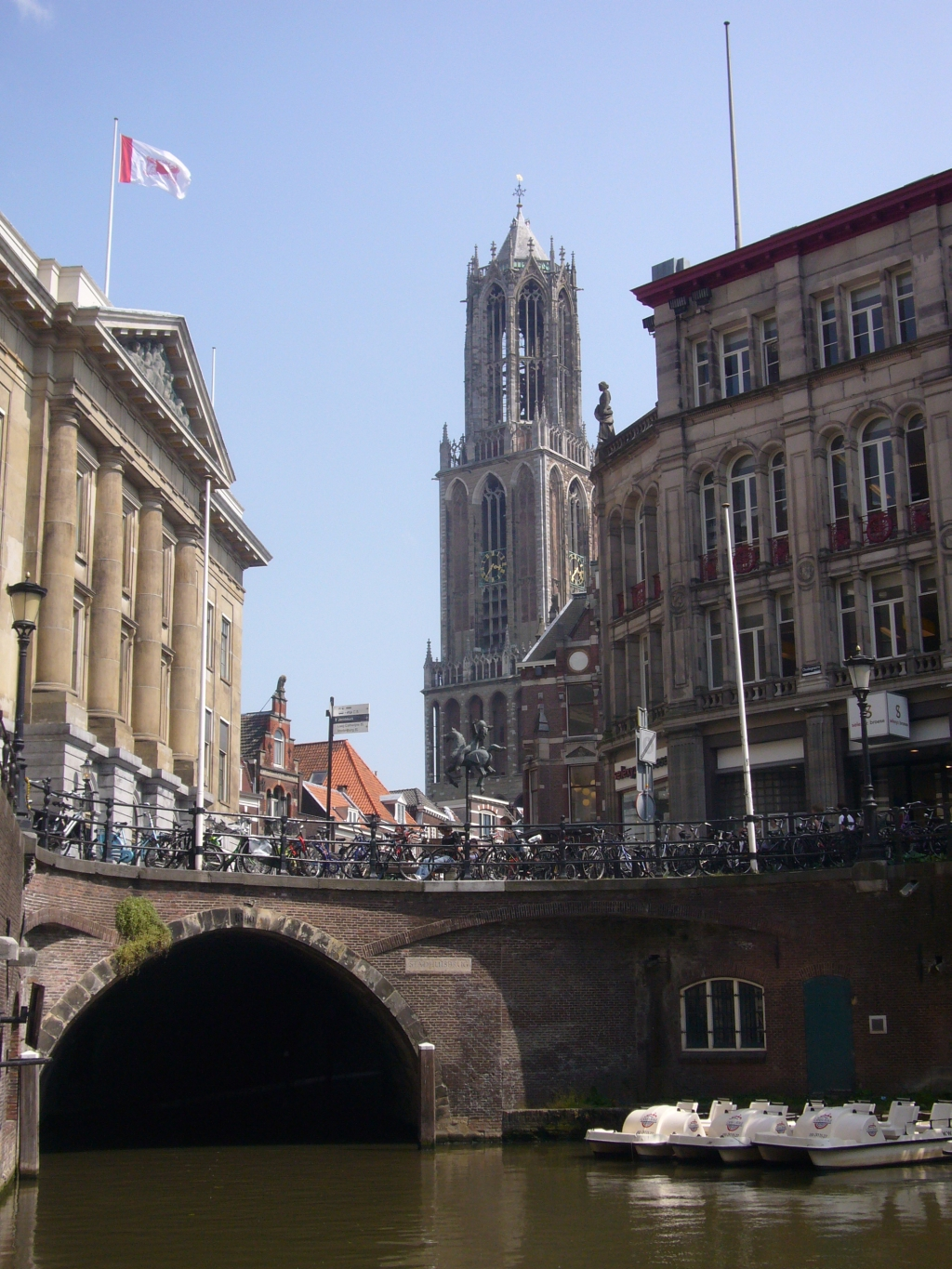 Utrecht Oudegracht and Domtoren. The Domtoren seen from the Oudegracht, Utrecht.